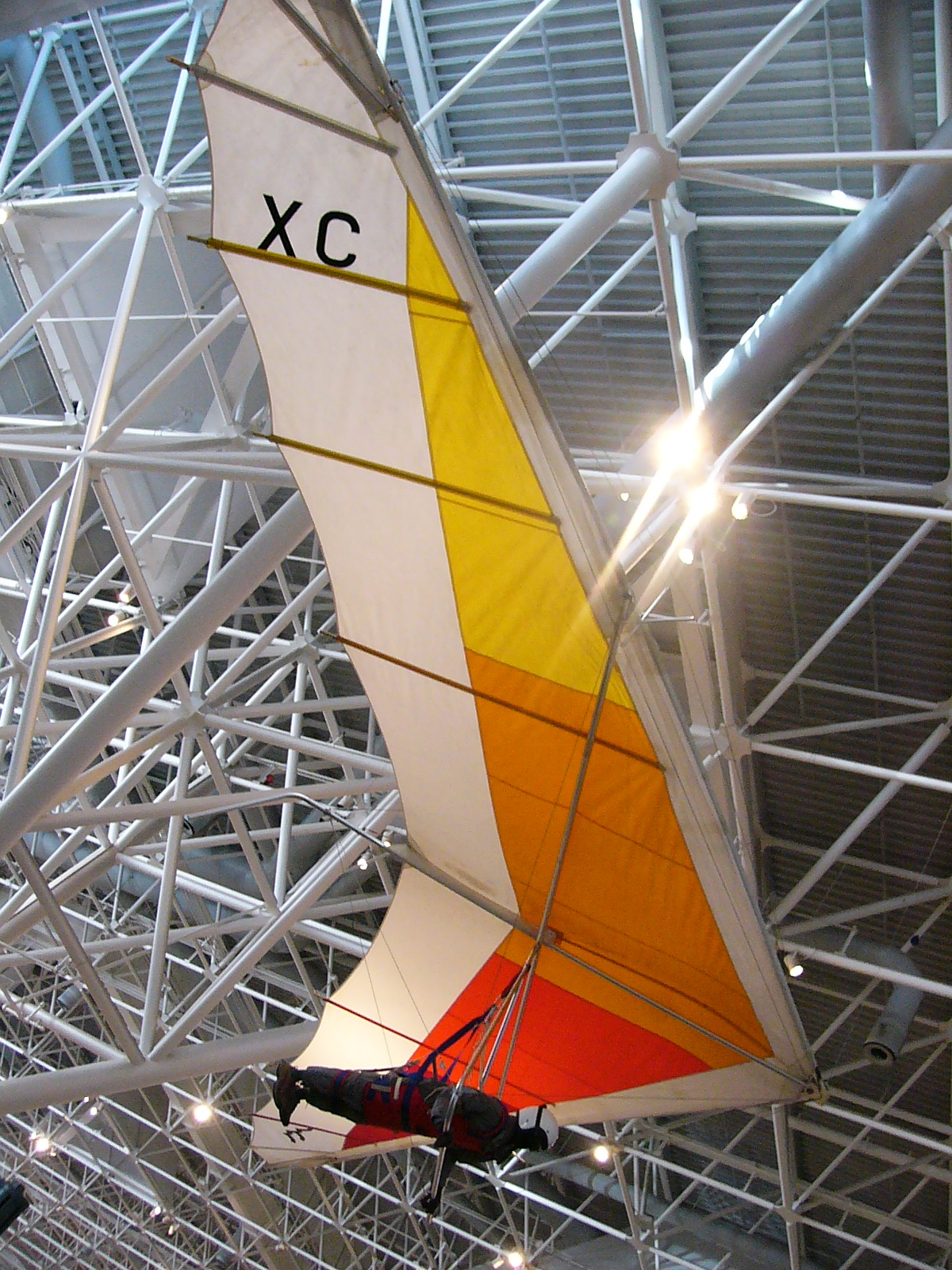 Wills Wing XC-185 hang glider at the Canada Aviation and Space Museum in Ottawa, Ontario, Canada